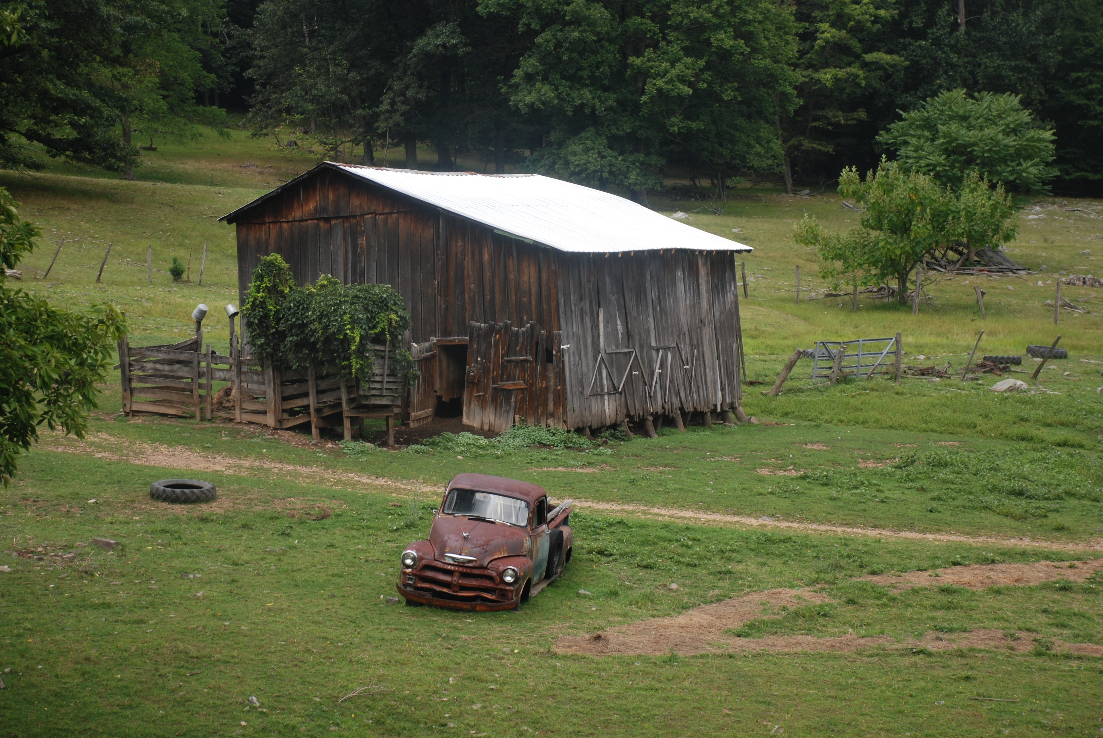 1955 1st-Series Chevrolet Pickup in the field near Smoke Hole road in Smoke Hole Canion